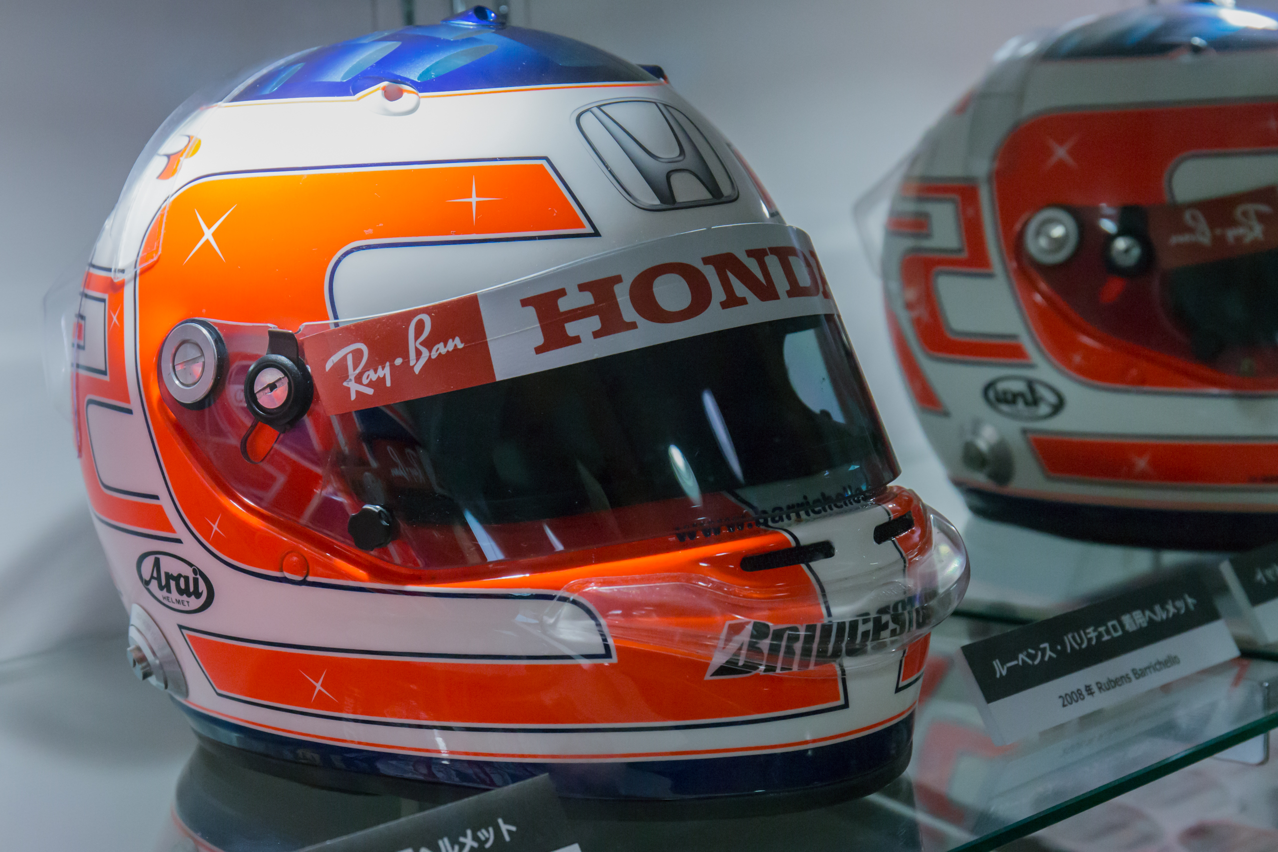 Rubens Barrichello's 2008 helmet